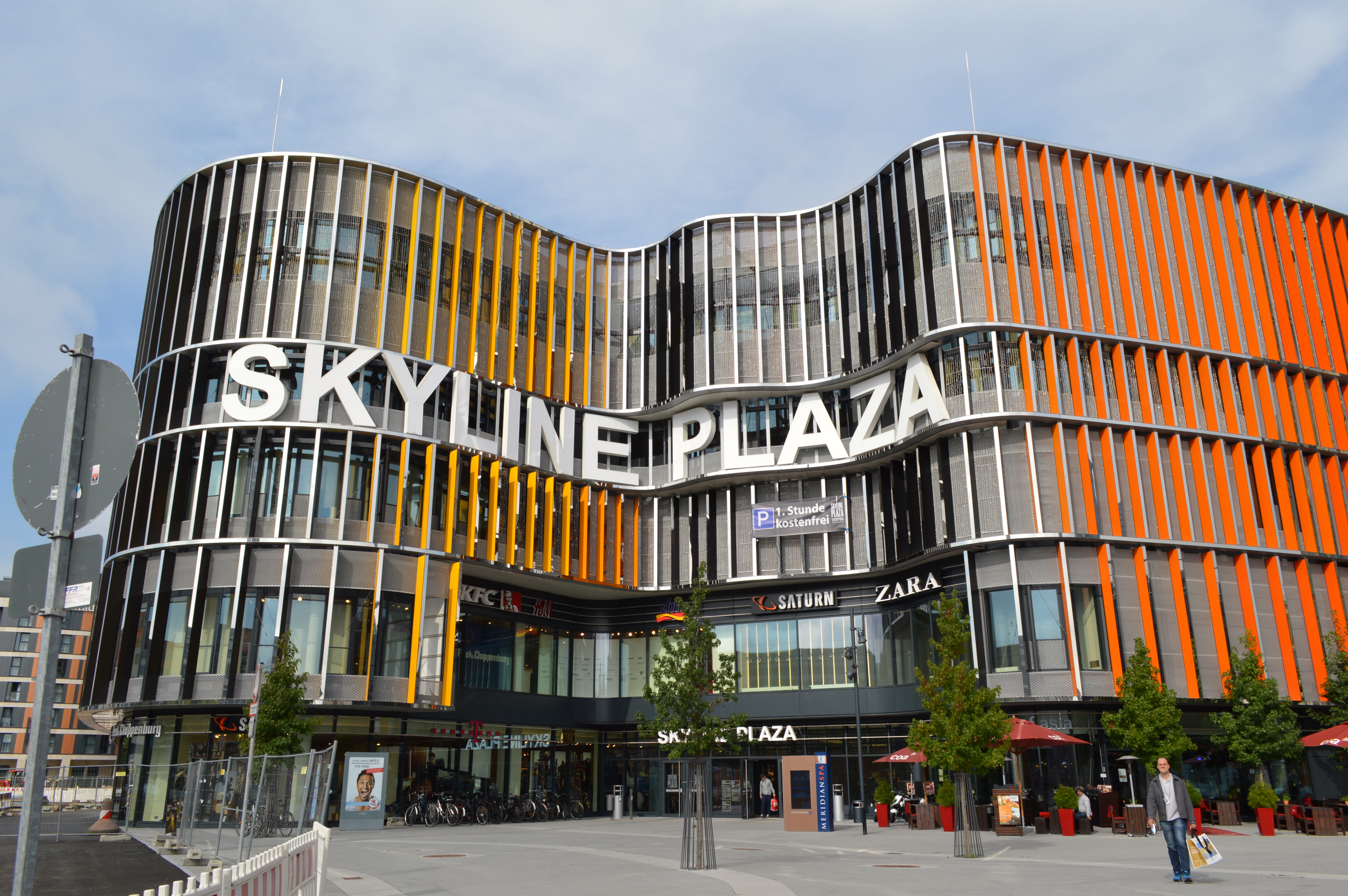 A facade of the Skyline Plaza, showing its colored louvers